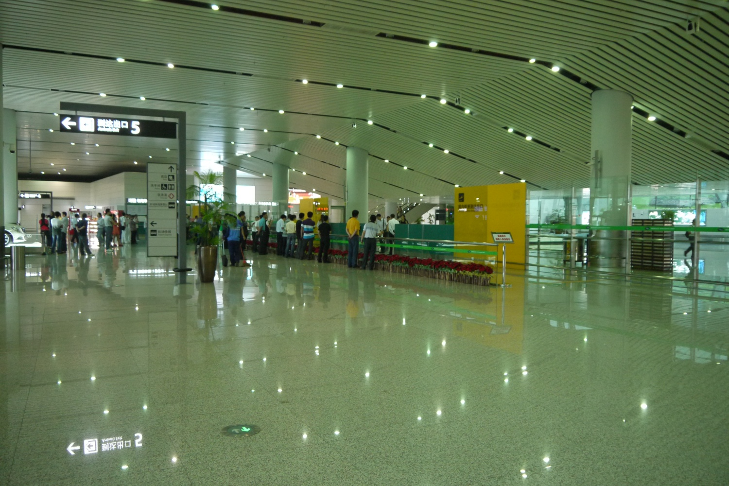 Shantou Airport - Inside Arrivals